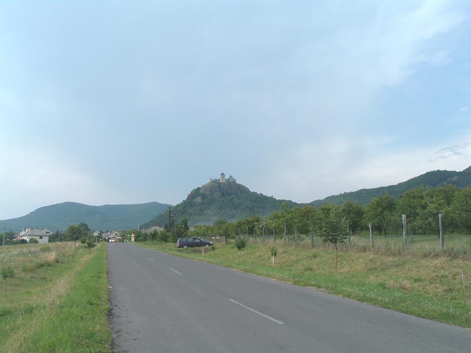 The Castle of Füzér, Hungary